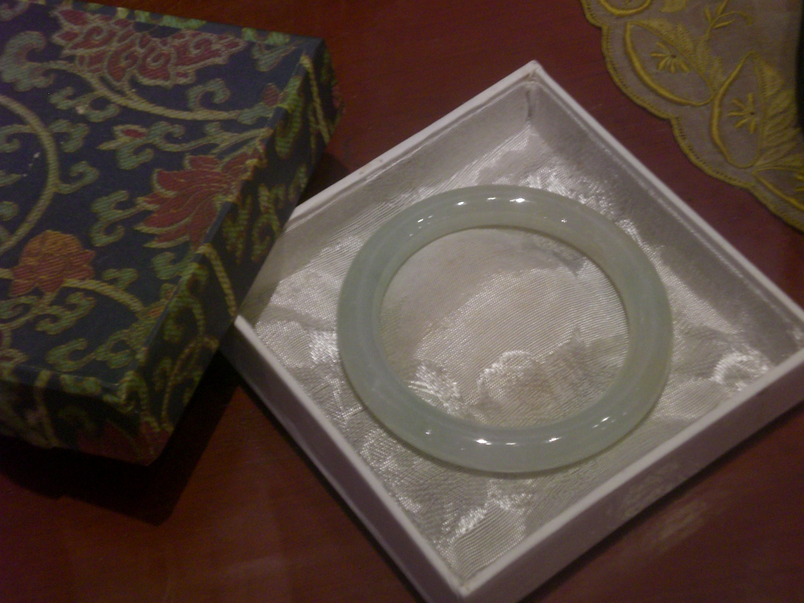 HK Film Archive showcases legendary superstar Lin Dai = 林黛, Lin Dai 在香港電影資料館